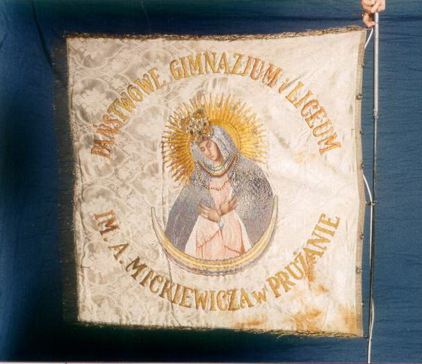 Flag of a grammar school of a name Adam Mickiewicz in Pruzhany (1922-1939)